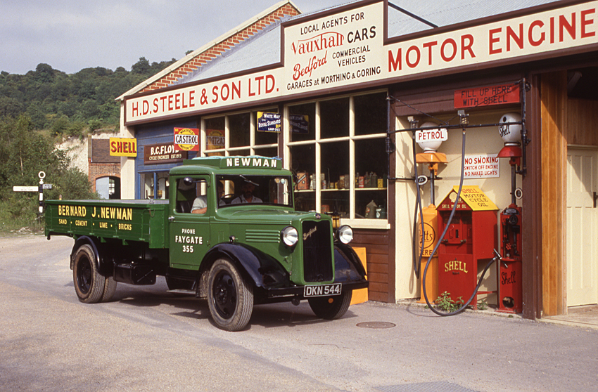 1936 Bedford WTL 2 Ton dropside lorry, registration DKN 544 at Amberley Museum. Scanned from a Fujichrome 35mm slide.